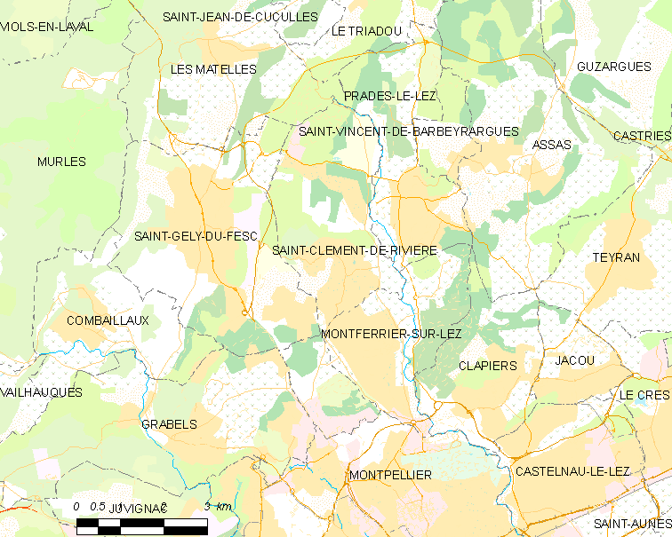 Map commune FR insee code 34247.png - Saint-Clément-de-Rivière